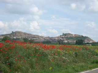 View of Bolea, Huesca, Spain from the west showing Collegiate Church (2007)